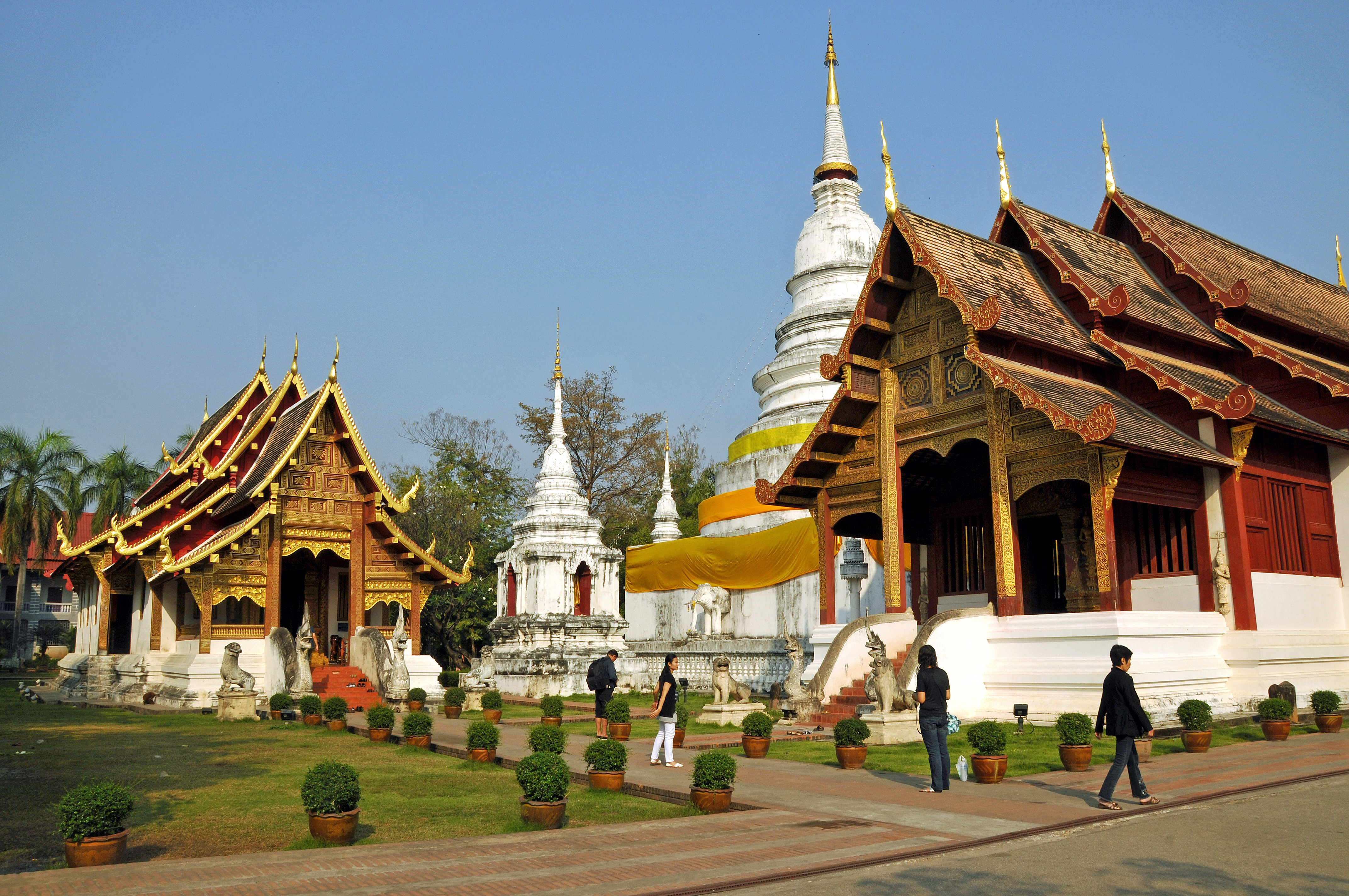 picture of Wat Phra Singh. This is an overview with Wiharn Lai Kham on the left, the Chedi in the center and Viharn Lai Kham on the right.